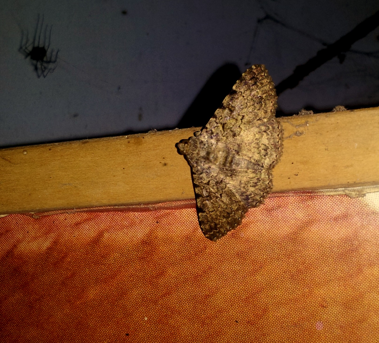 Moth sp. in Bakamuna, Sri Lanka - 3